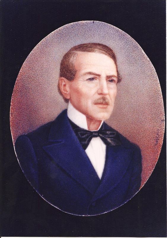 Portrait of Pacifico Chiriboga - Quito - Ecuador